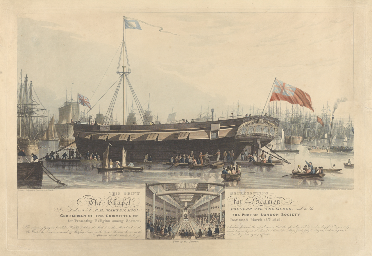 This Print Represents The Chapel for Seamen... Port of London Society... Instituted March 18th 1818... Chapel for Seamen is moored off Wapping Stairs in the River Thames. View of the Interior (inset) An old sloop of war; 380 tons.[1] Hand-coloured. This Print Represents The Chapel for Seamen... Port of London Society... Instituted March 18th 1818... Chapel for Seamen is moored off Wapping Stairs in the River Thames. View of the Interior (inset)